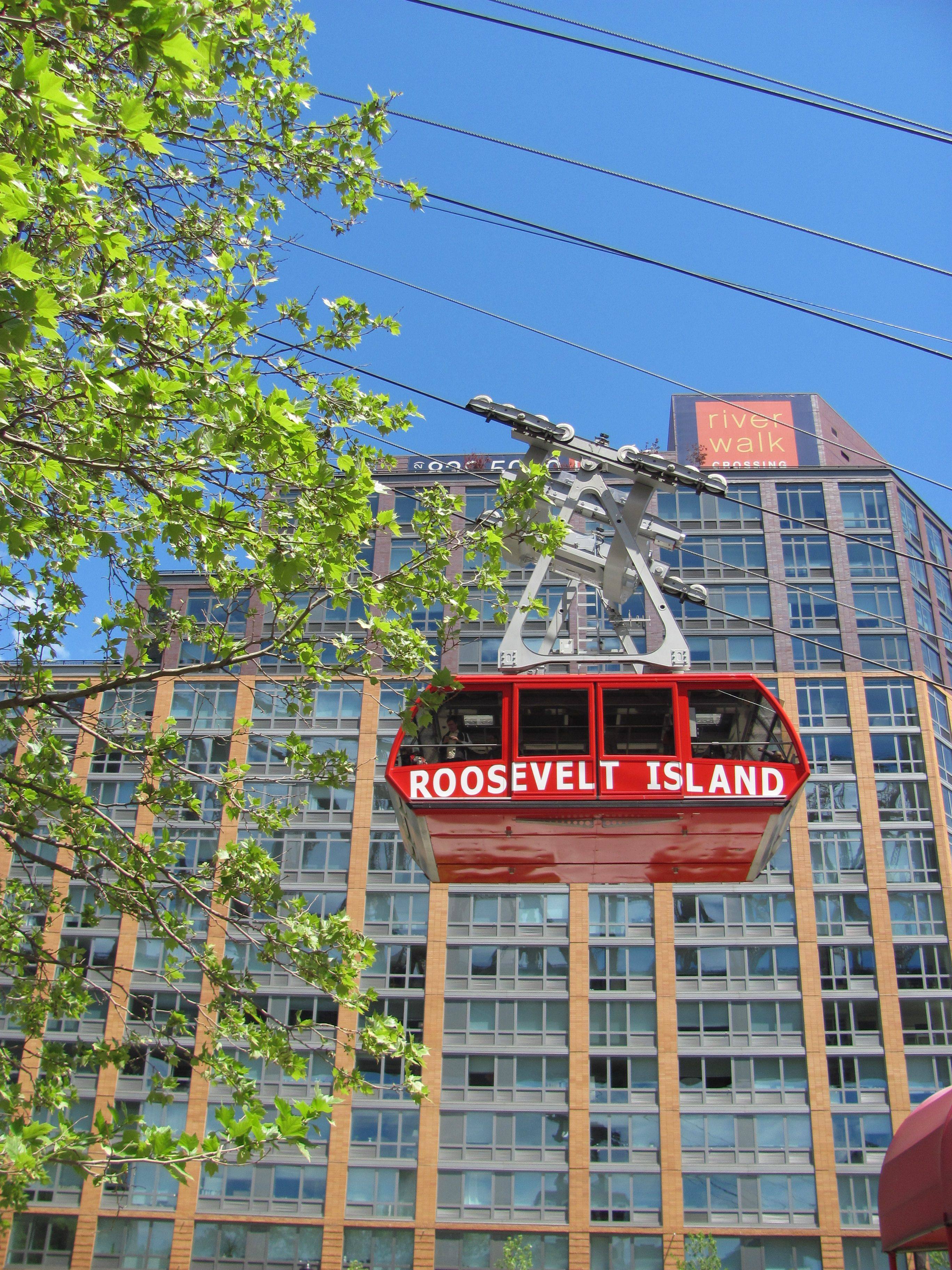 Roosevelt Island Tramway